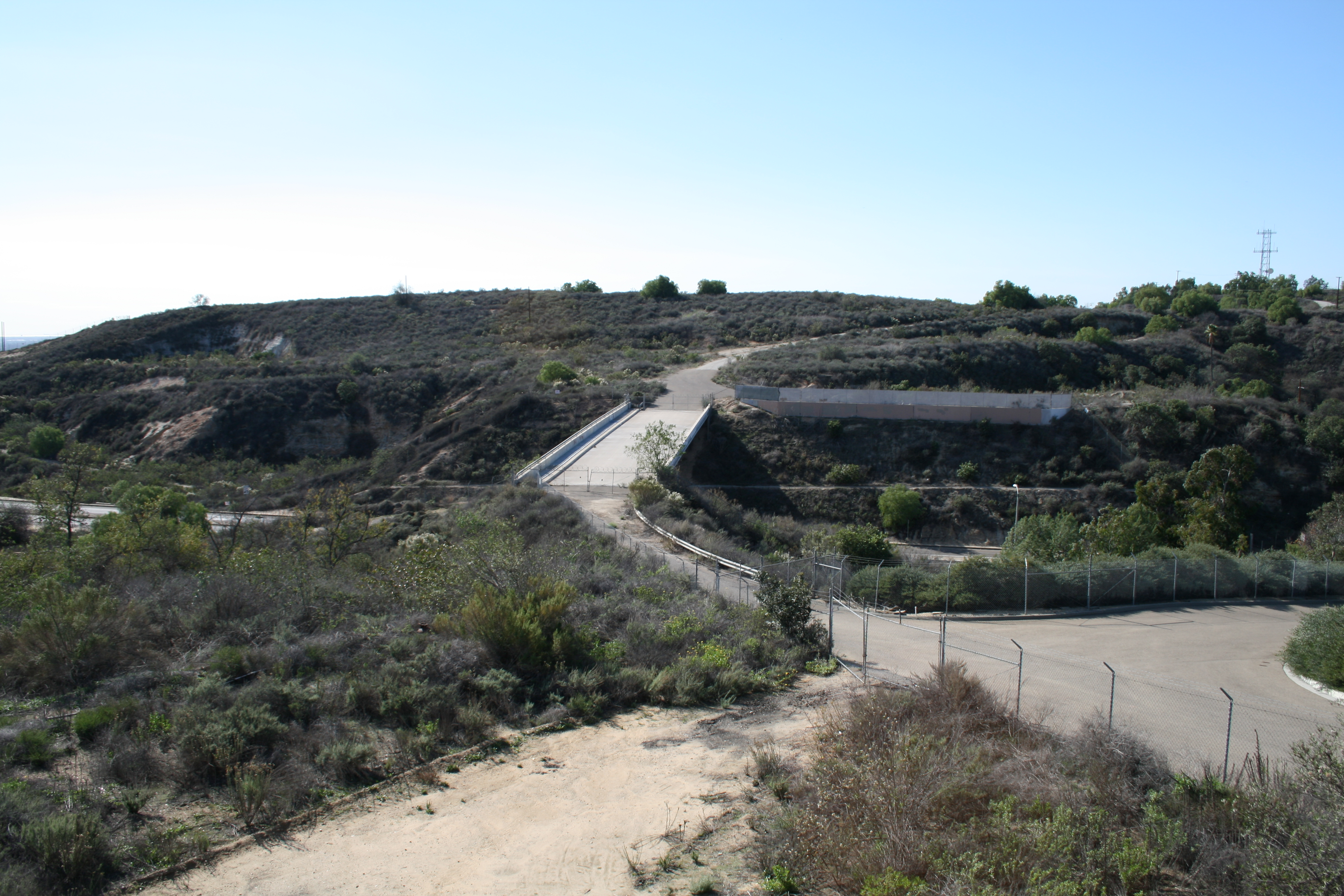 Bridge above Idaho St